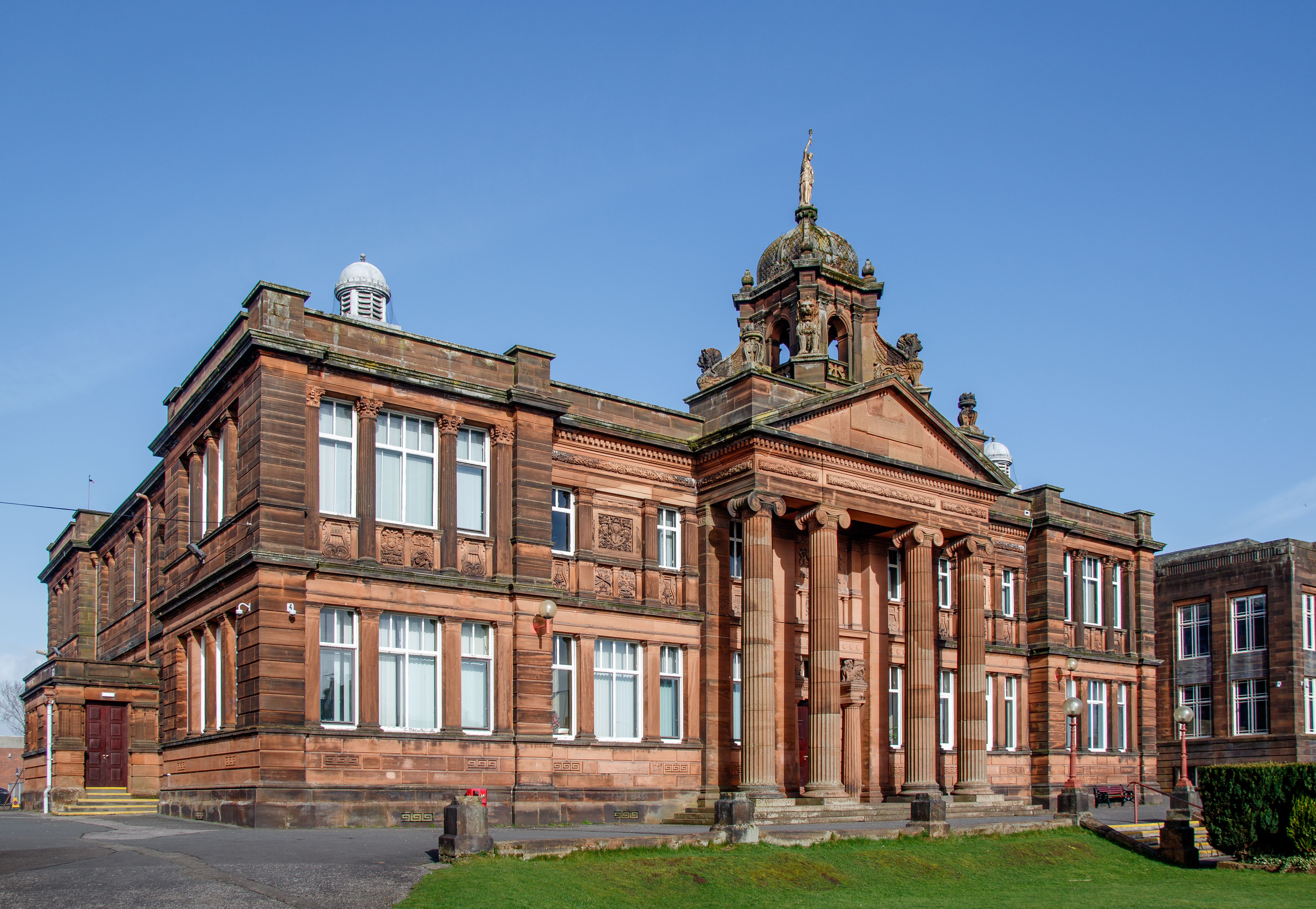 This file was uploaded as part of the Dumfries Stonecarving Project in Dumfries, Scotland, UK. This tag does not indicate the copyright status of the attached work. A normal copyright tag is still required. See Commons:Licensing for more information.